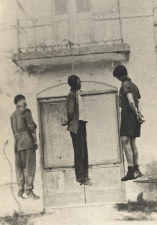 Three hangings of three partisans from 1944 in Pian di Pieca, photo of the municipal library Scipione Gentili